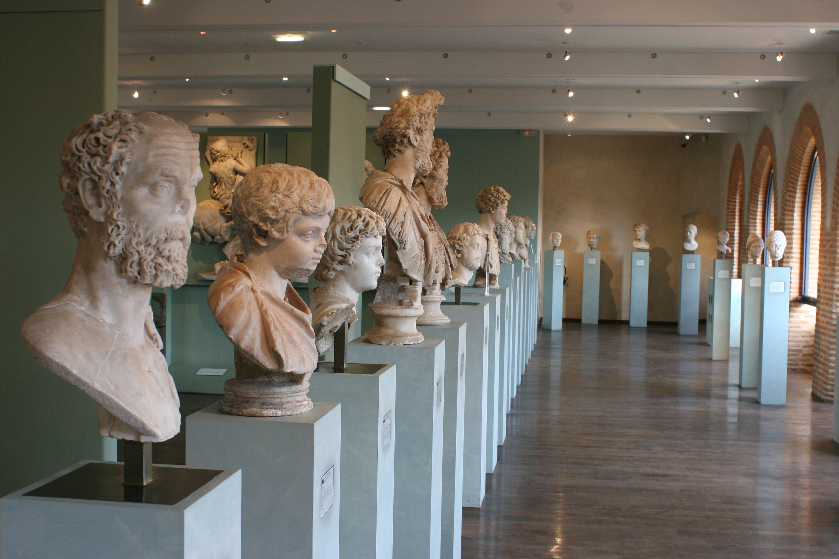 Roman busts in Musée Saint-Raymond (Toulouse, France).